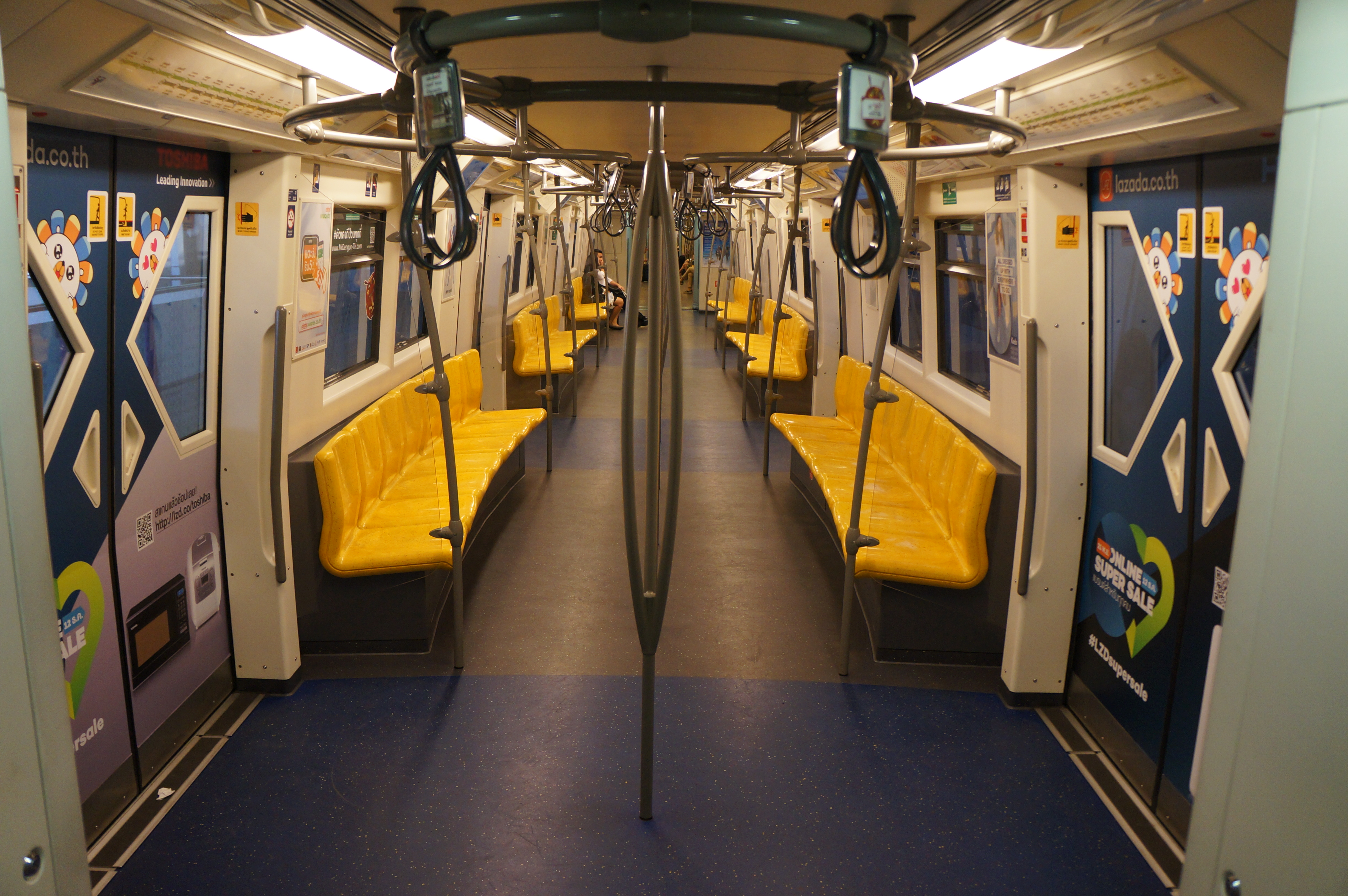 201701 Interior of BTS Siemens-manufactured train